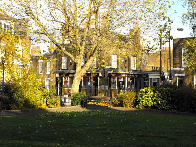 Queen's Head, E14 Viewed from the garden in York Square is the Queen's Head on the corner of Chaseley Street and Flamborough Street. Not to be confused with a similarly named pub in a popular BBC soap opera. Young's Brewery's comment